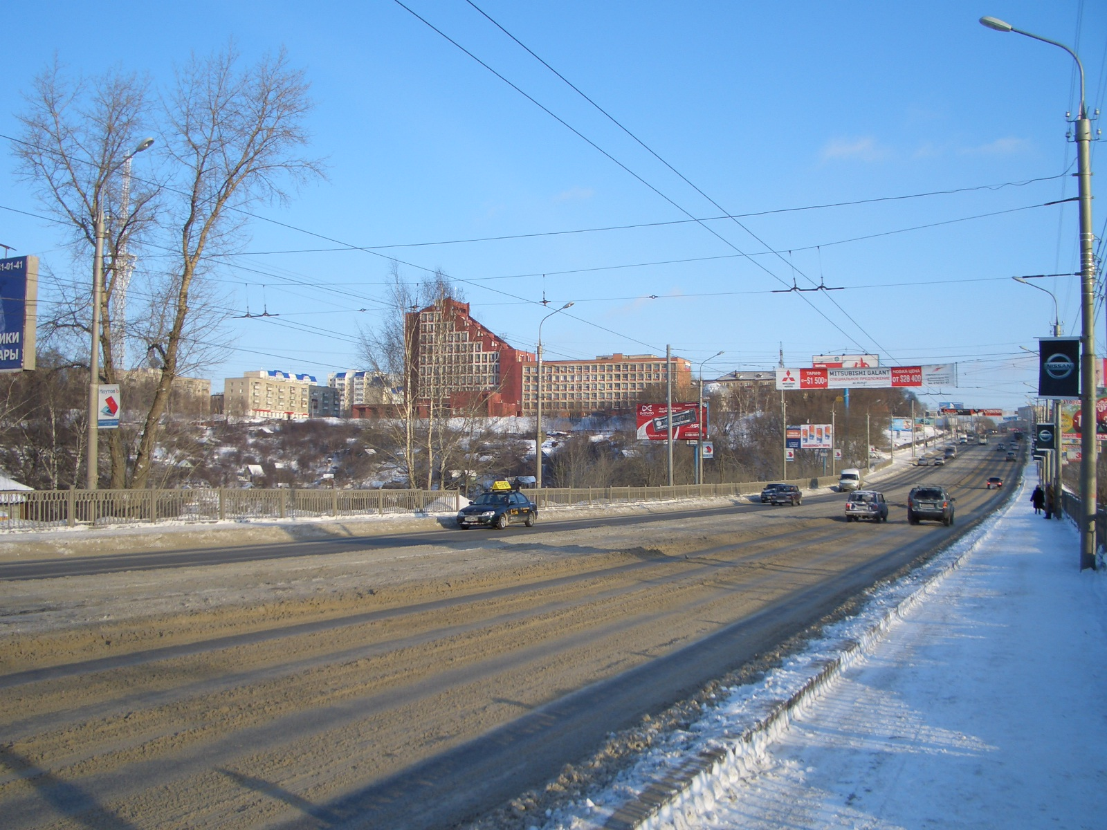 North Dam in Perm